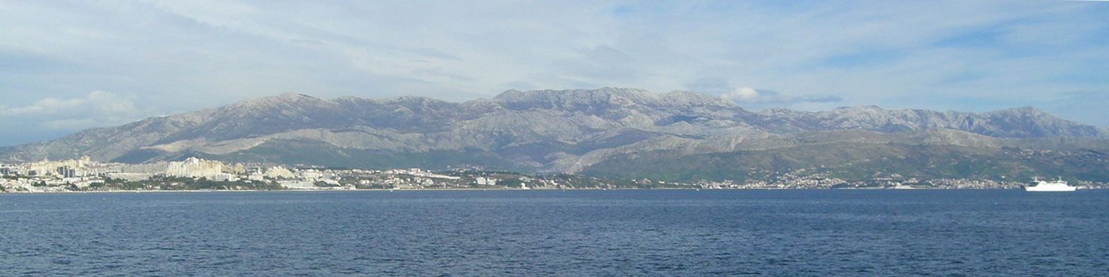 Mosor from Brač channel